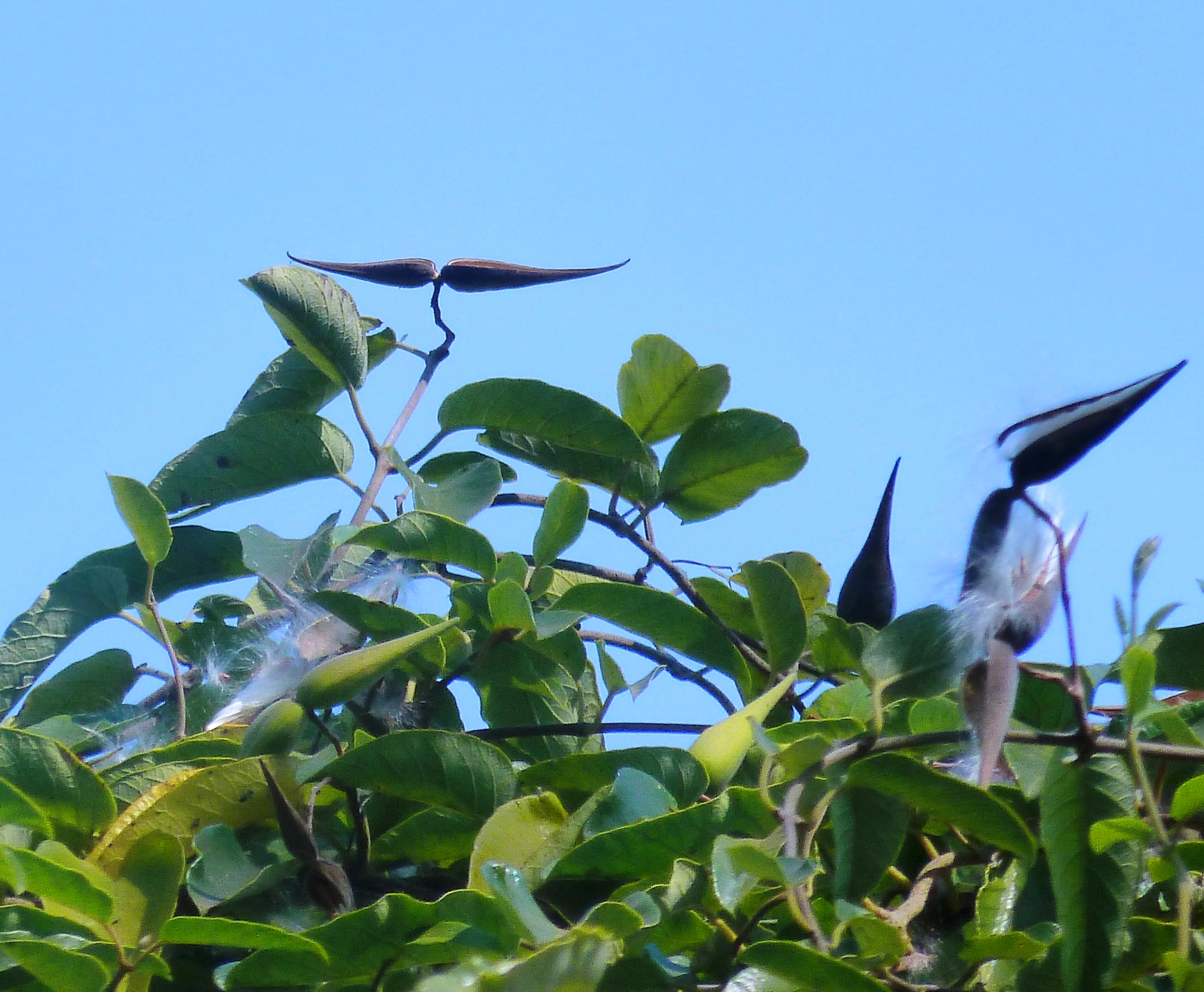 Foliage and fruit of Tacazzea apiculata in the Manie van der Schijff Botanical Garden, Pretoria